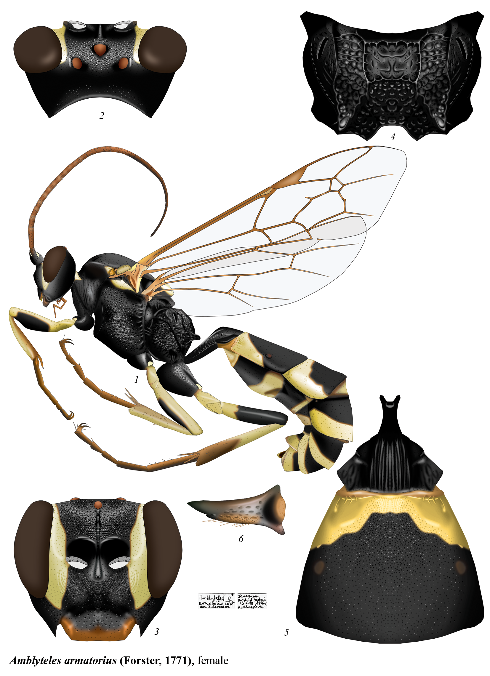 Amblyteles armatorius (Forster)